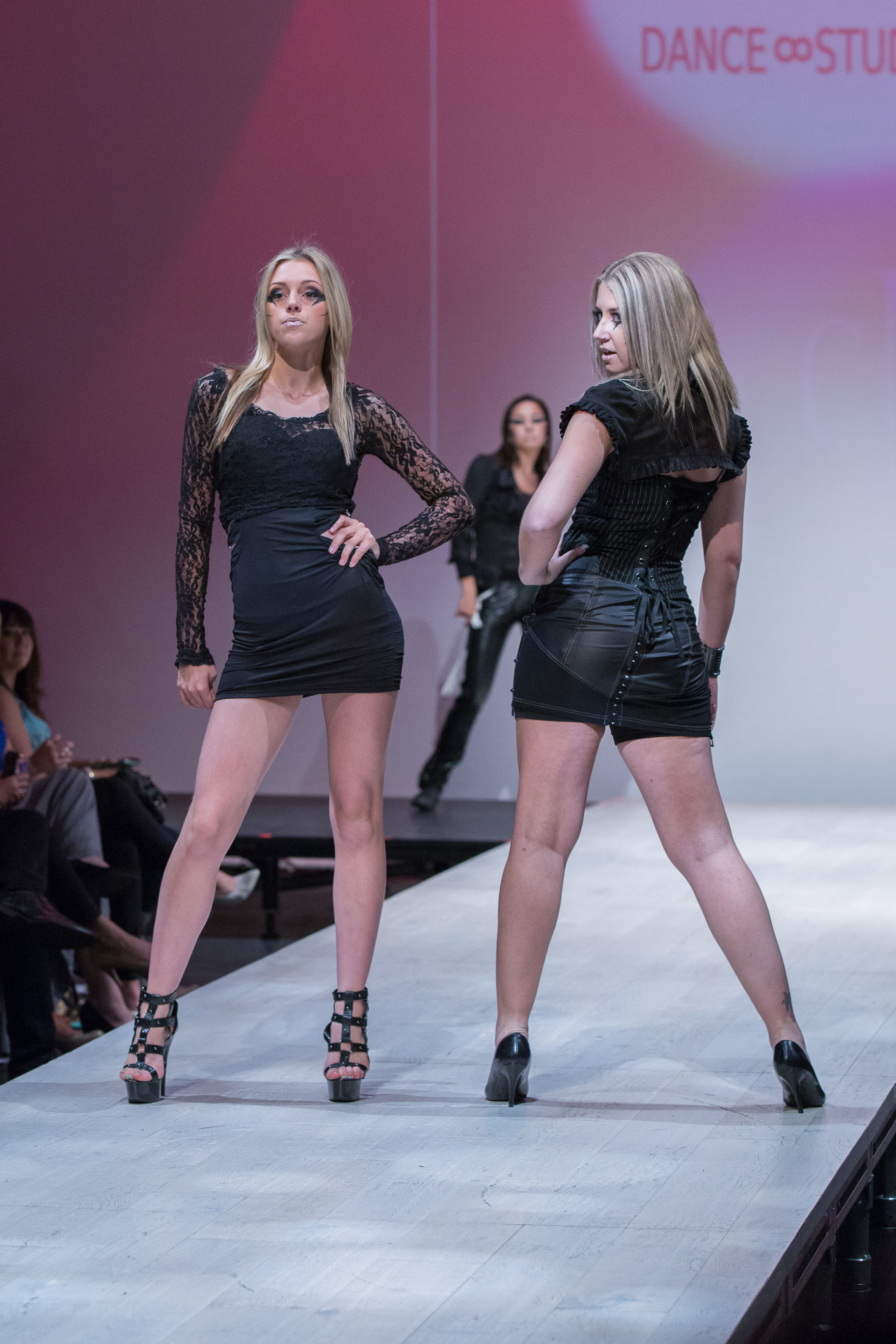 Western Canada Fashion Week - Fall 2014